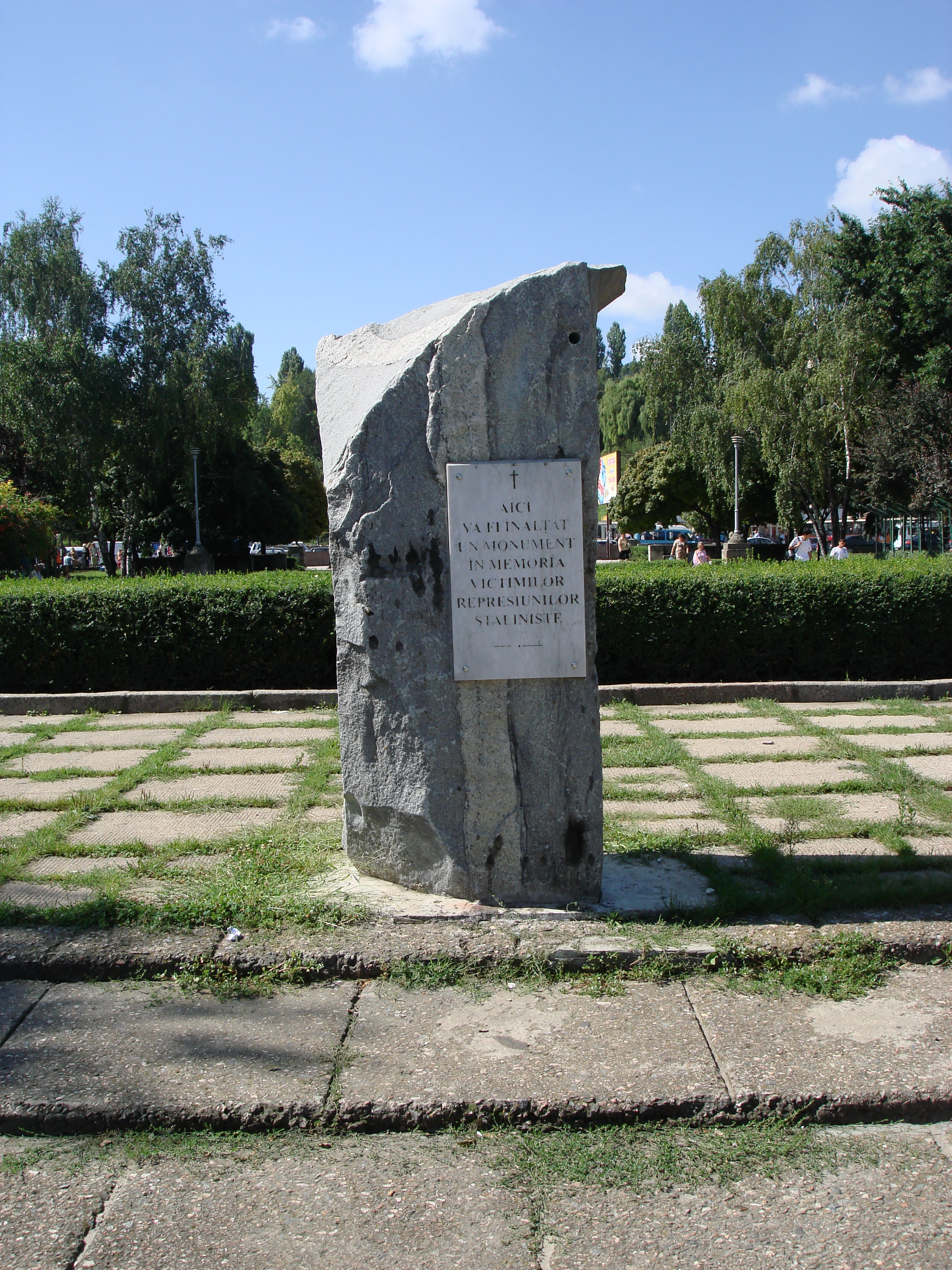 Monument in memory of victims of Stalinist repression